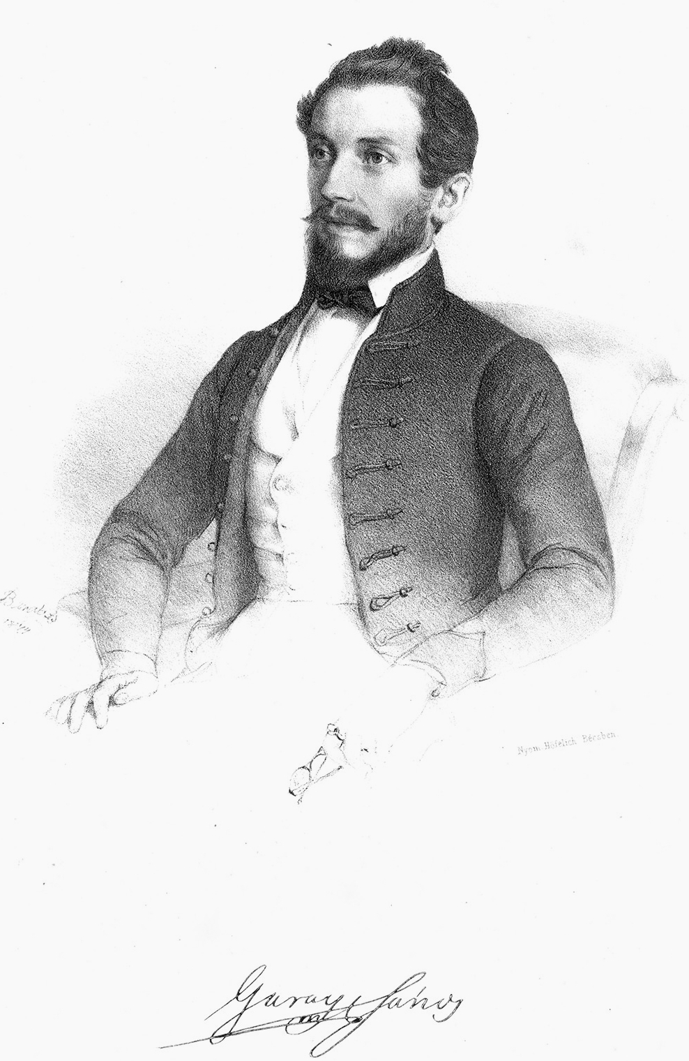 Garay János (Szekszárd, 1812. október 10. – Pest, 1853. november 5.) magyar költő, író, újságíró.